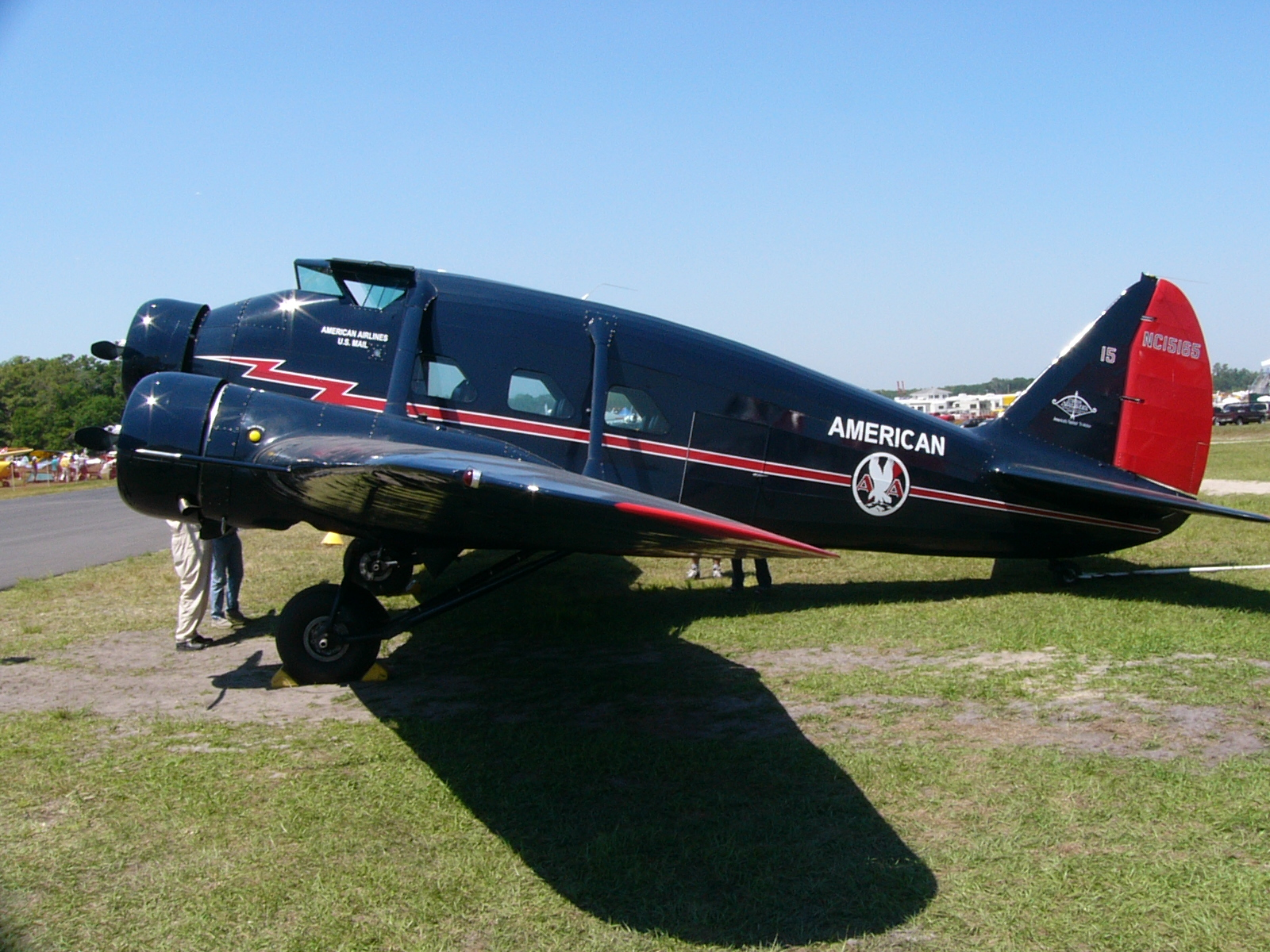 Stinson Model A airliner, built in 1936 and owned by STINSON LLC. This photograph was taken at Sun 'n Fun 2006 in Lakeland Florida USA